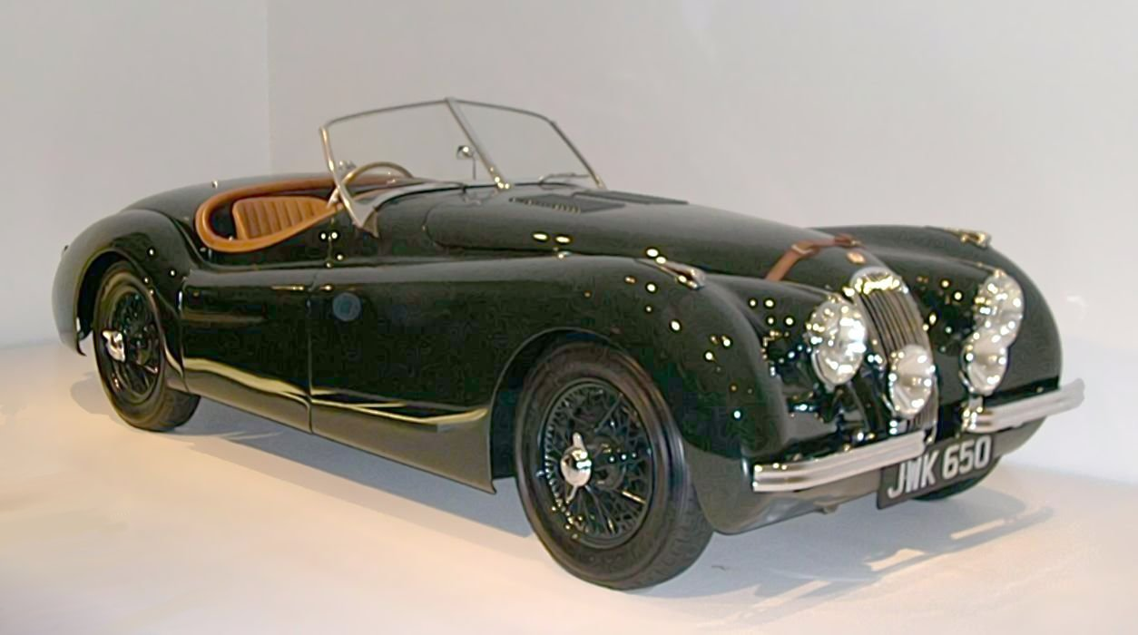 1950 Jaguar XK120From the Ralph Lauren collection on display at the Boston Museum of Fine Arts.